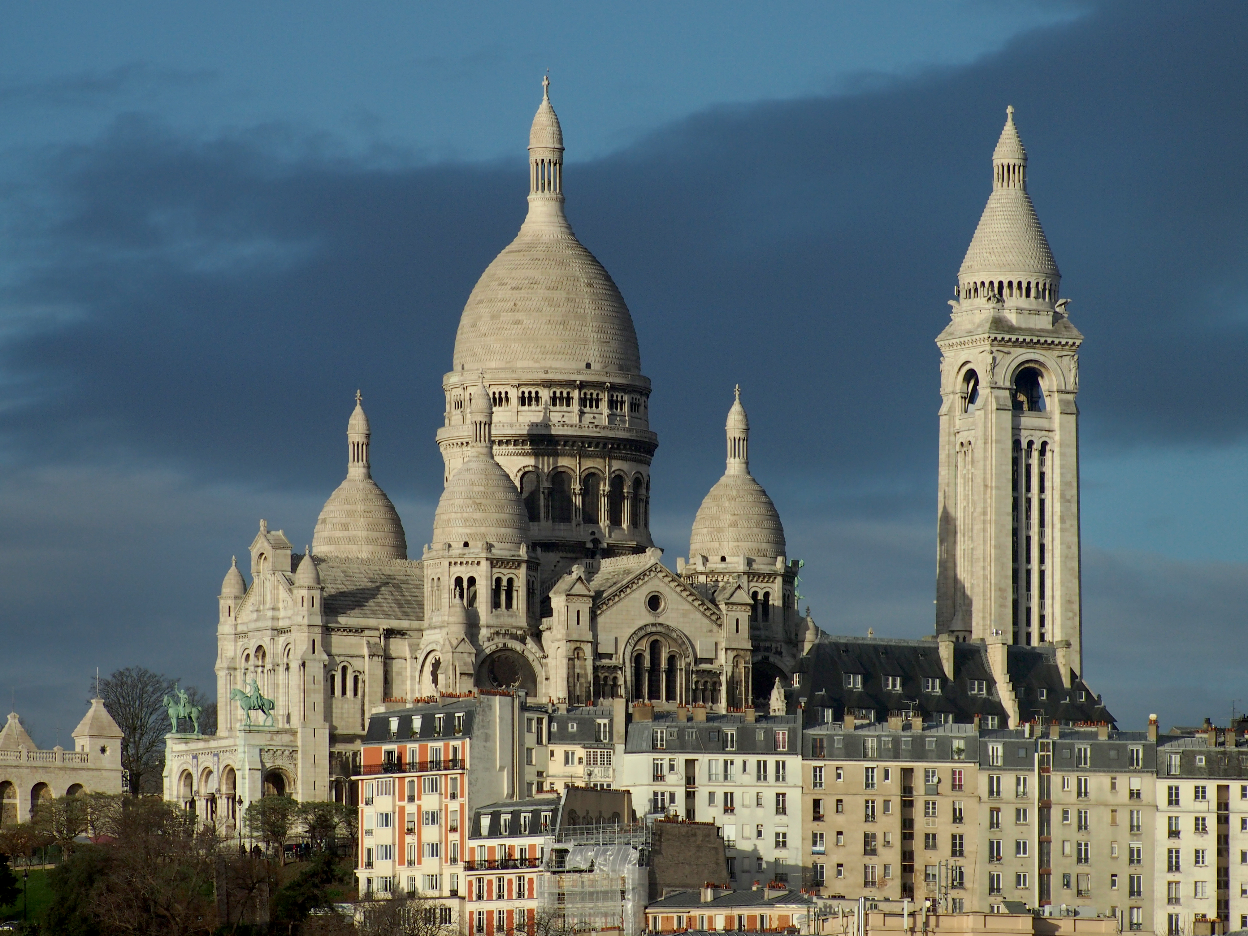 Sacré-Coeur, Montmartre as seen from a building on Rue de Maubeuge, Paris.